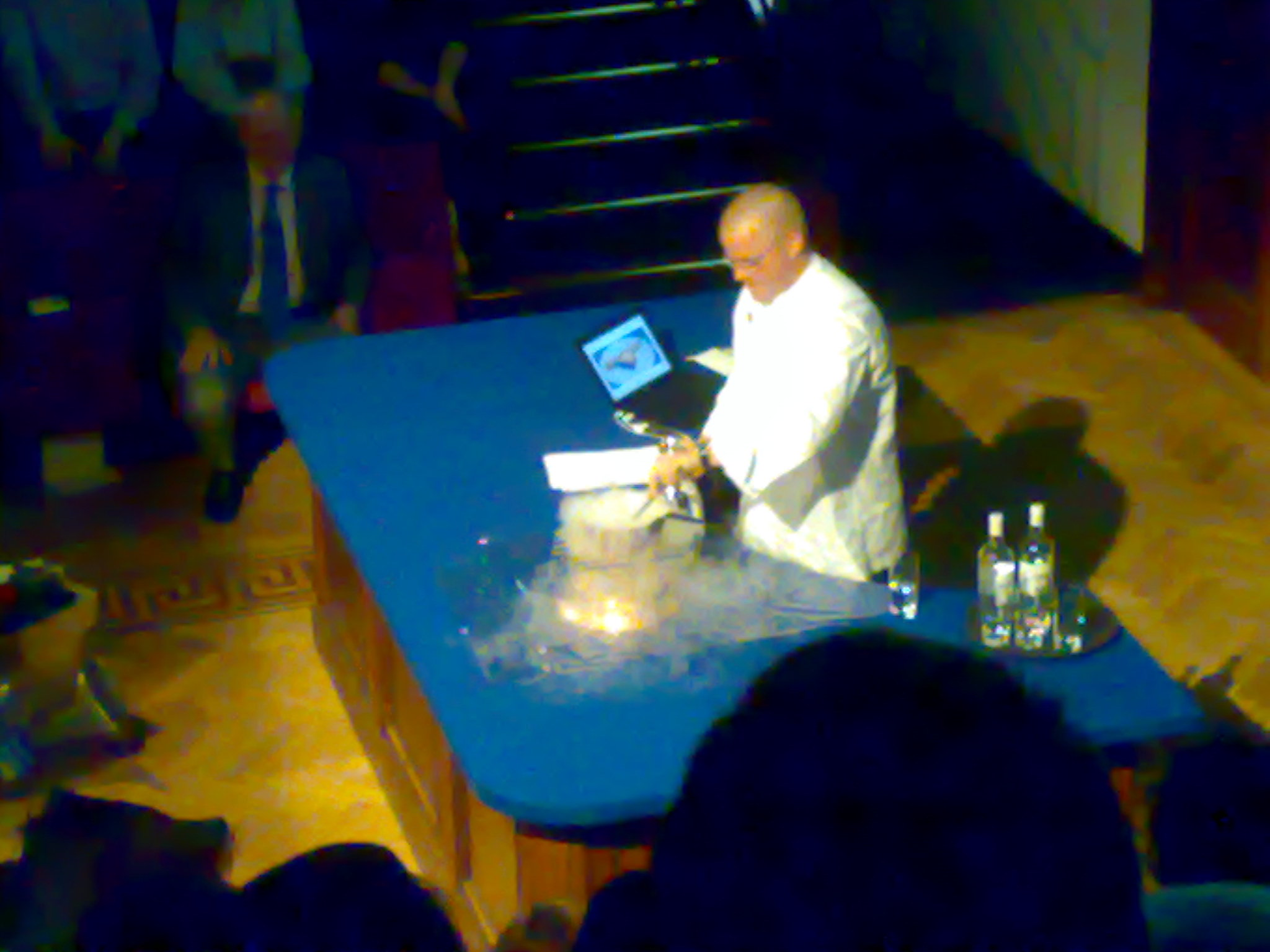 Heston Blumenthal cooking demonstration